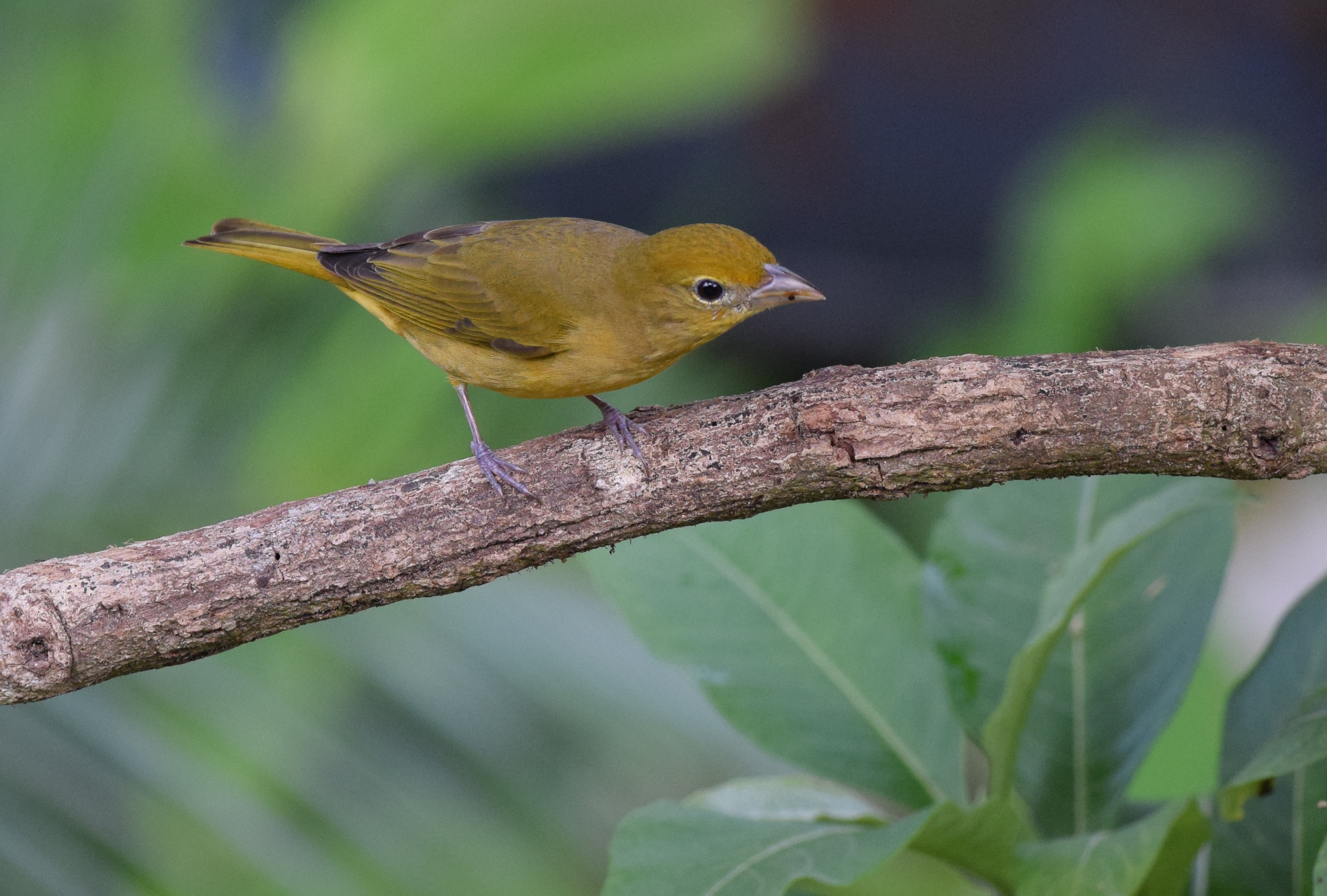 Costa Rica 2/14/16 Rancho Naturalista